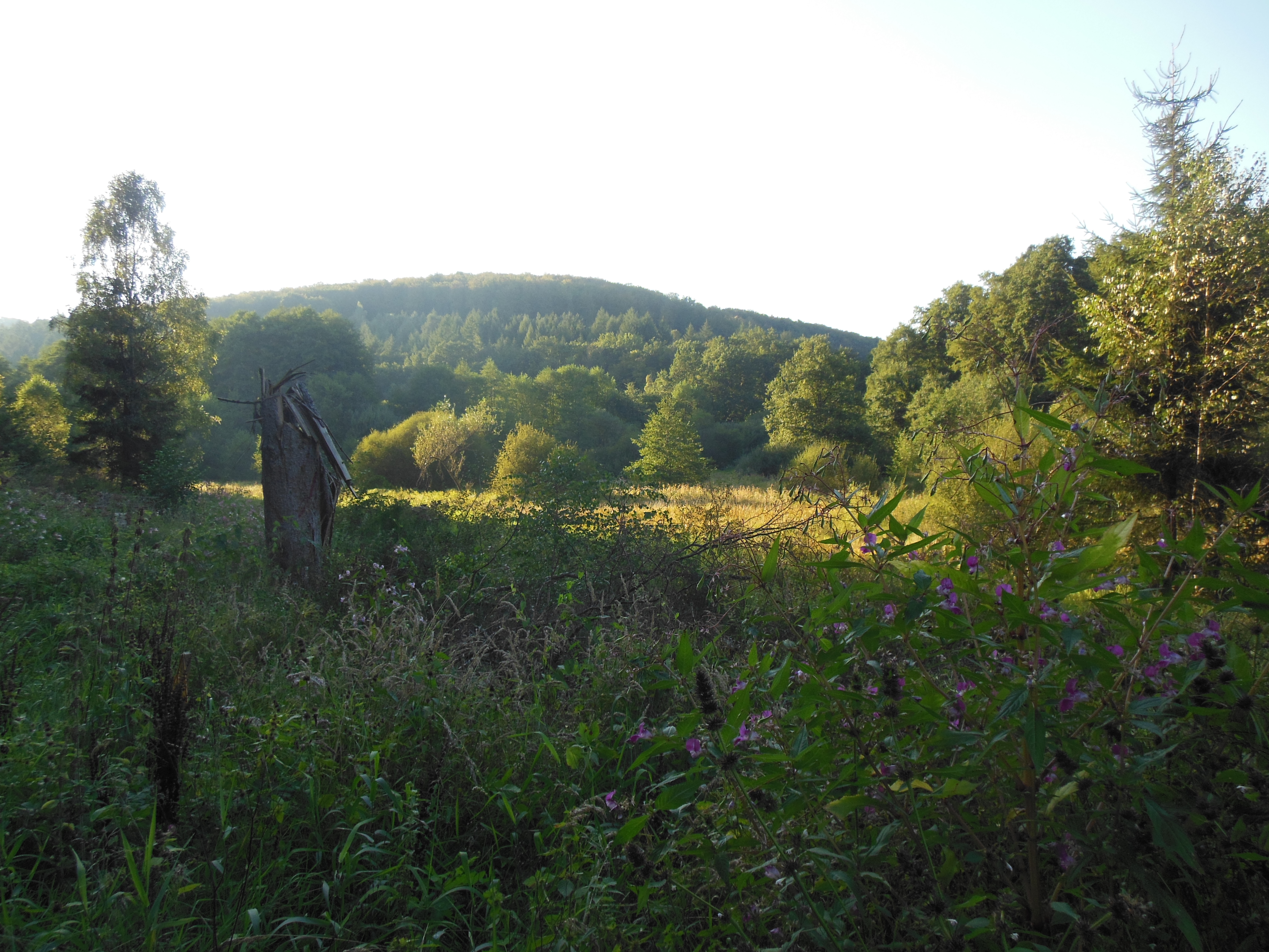 View of the Montbronn Municipality from Soucht